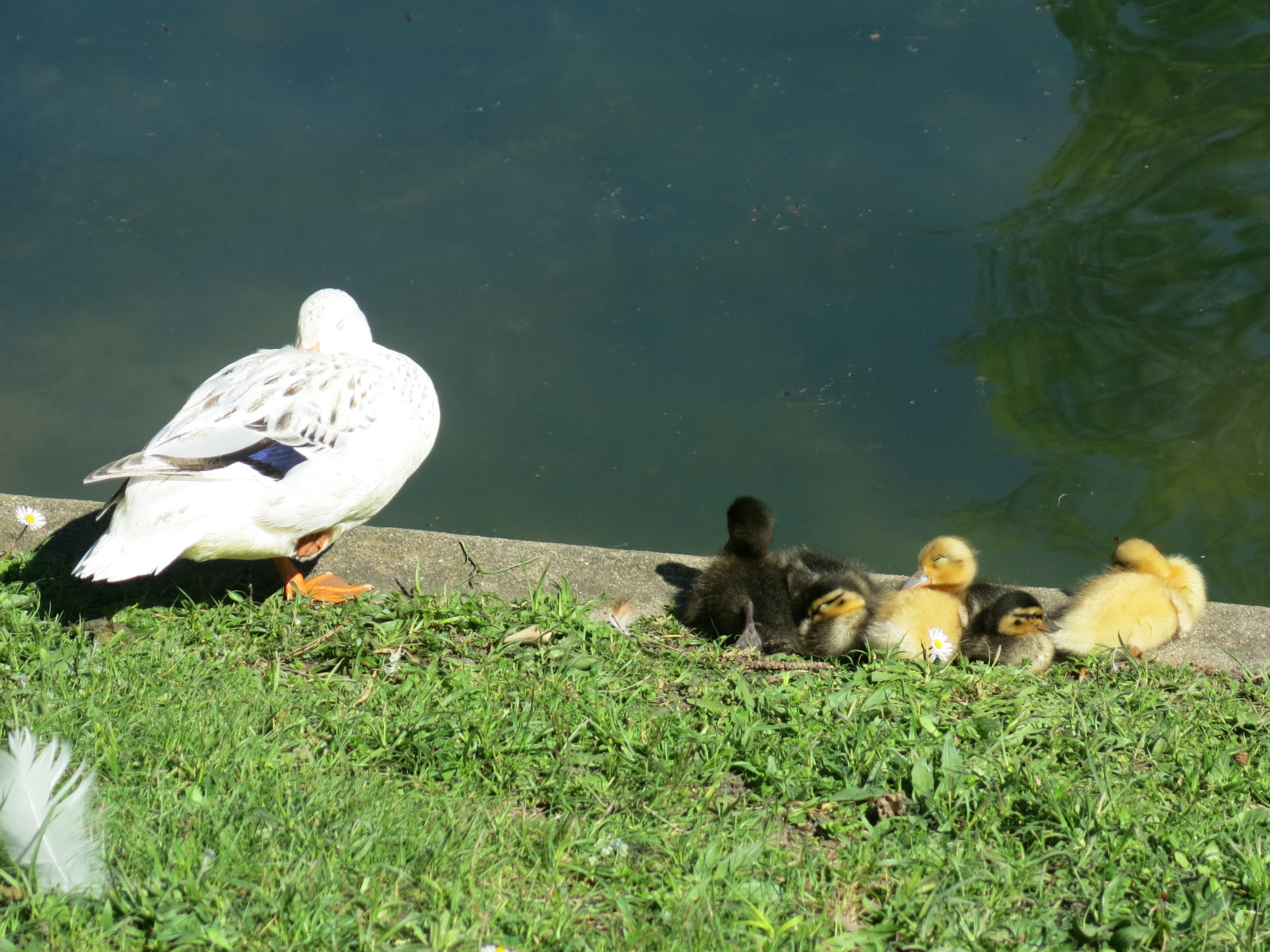 Family of ducks on the inferior lake of the Boulogne wood (Paris, France).